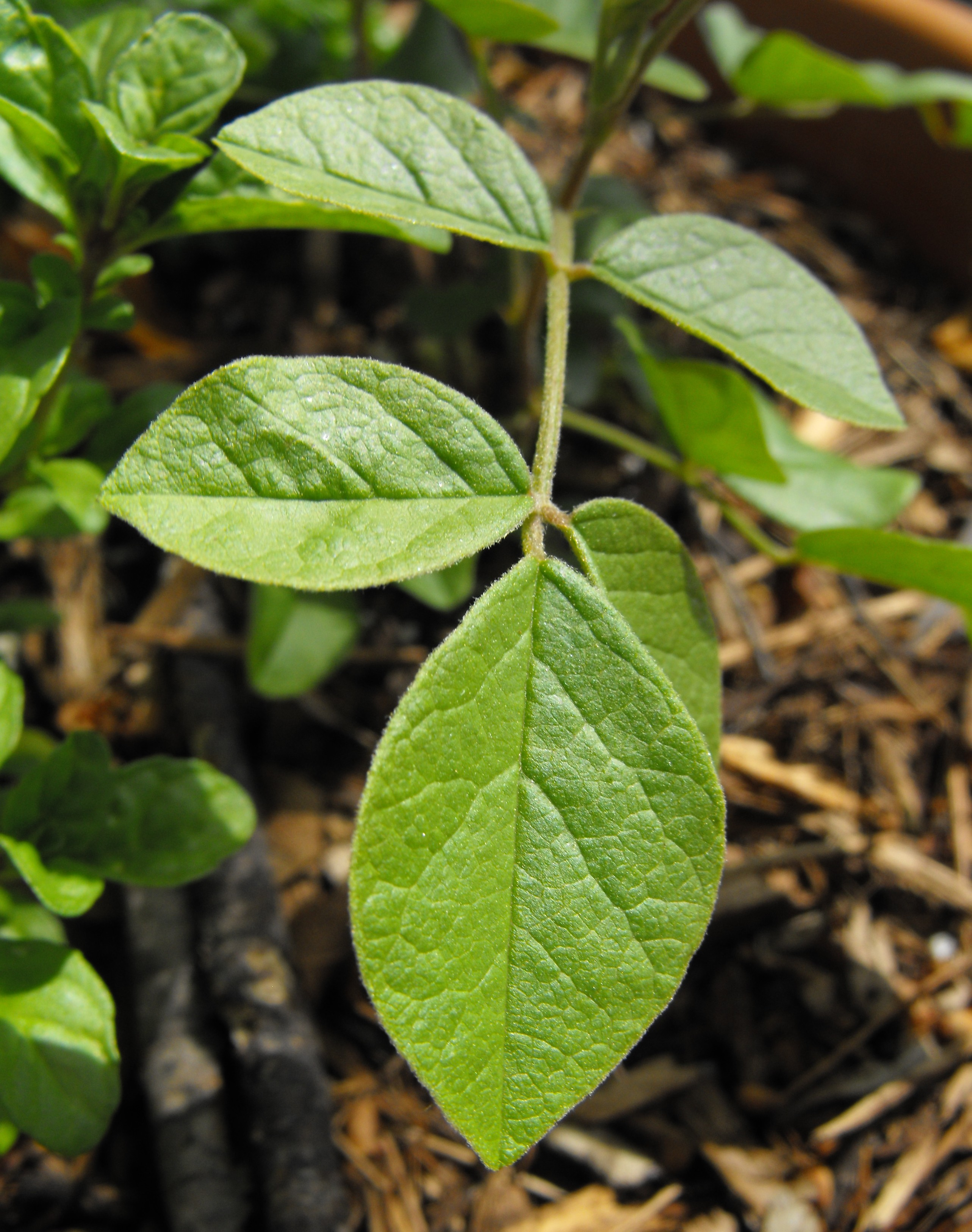 Glycyrrhiza uralensis at the San Diego Botanic Garden in Encinitas, California, USA. Identified by sign.